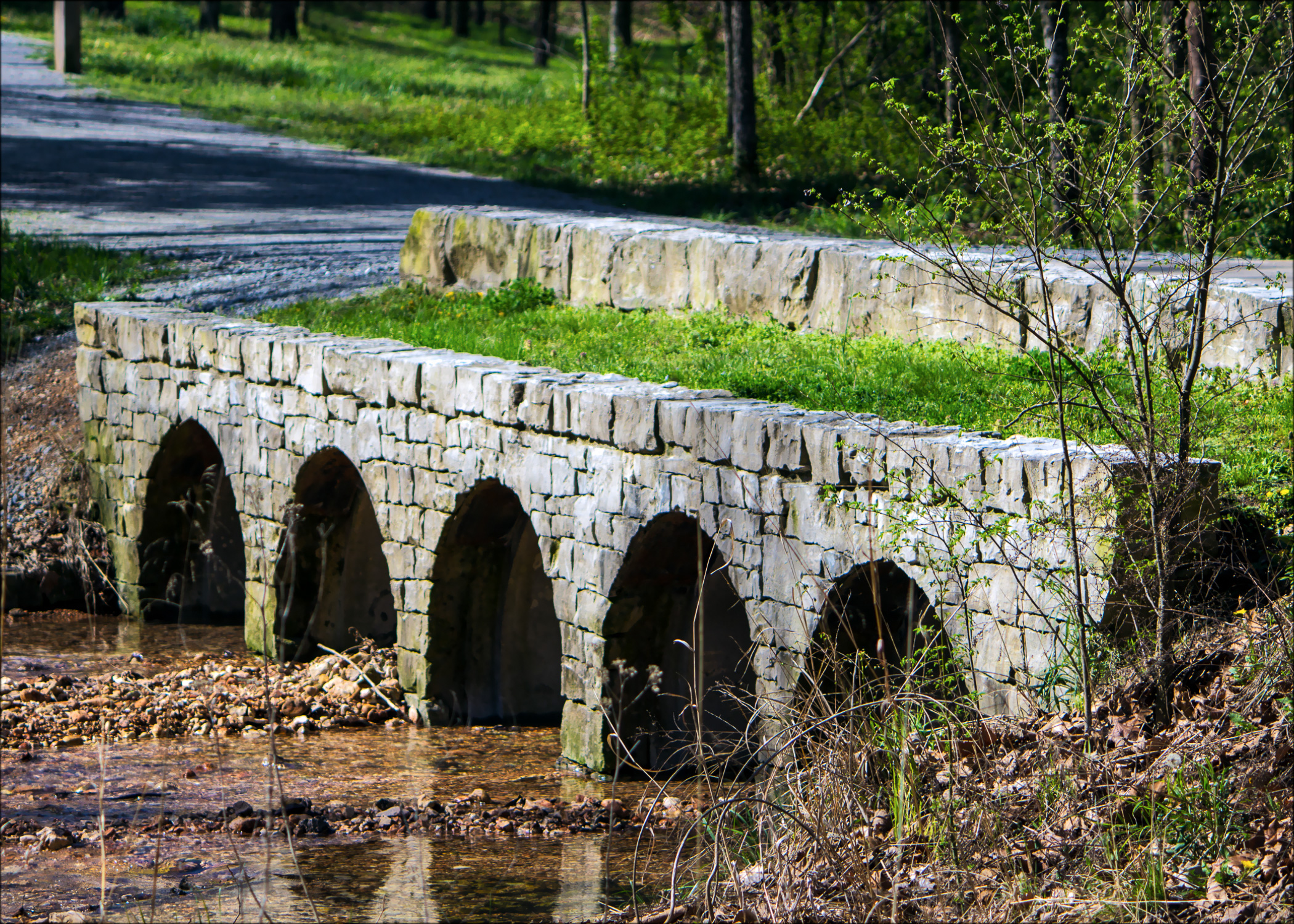 Bridge at Hobbs State Park that takes you to the land where Peter Van Winkle built a mill and residence. Peter Van Winkle was a prominent businessman in the late 1800's in Northwest Arkansas. Now a part of Van Winkle trail.